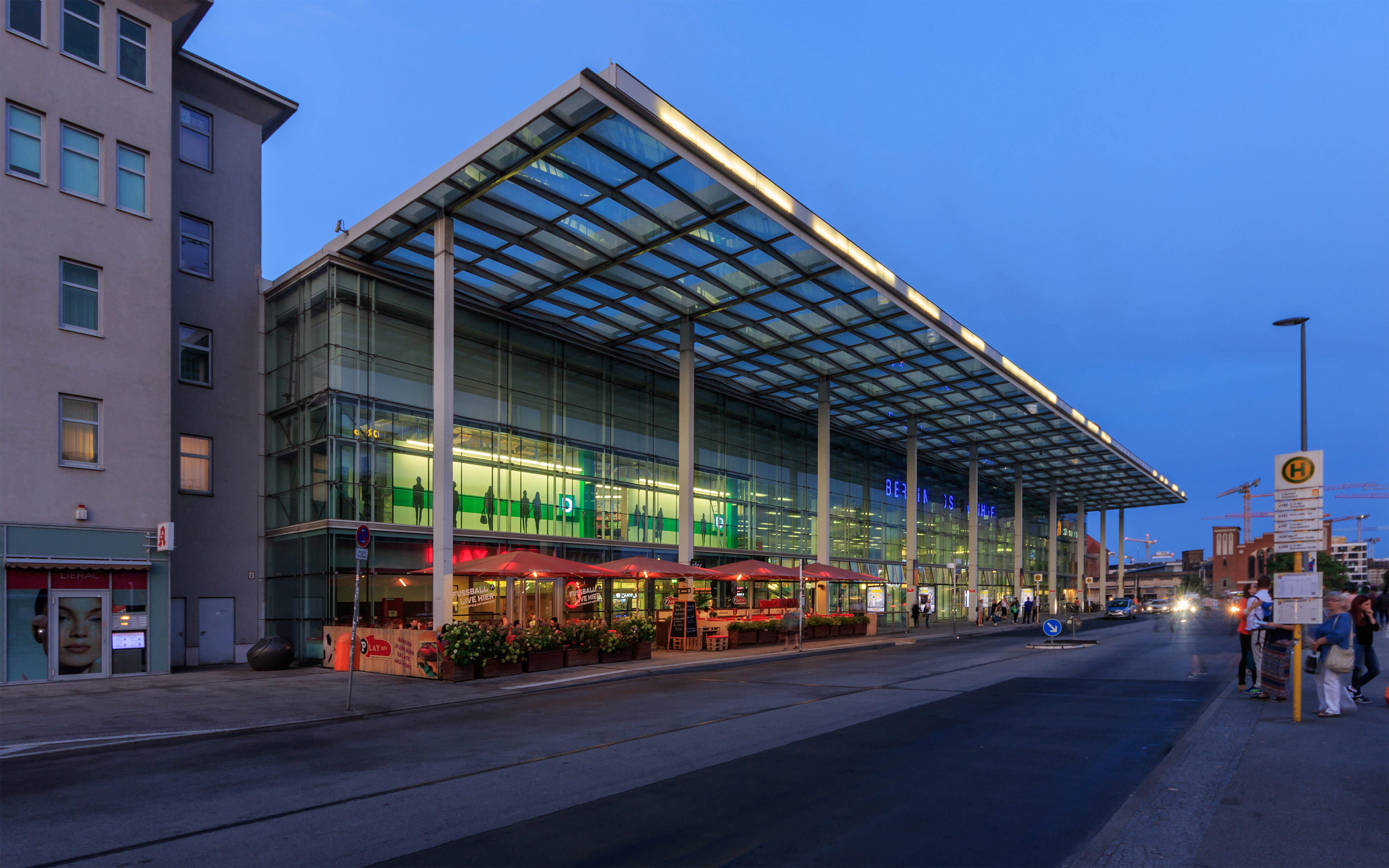 Ostbahnhof railway station in Berlin (Germany)